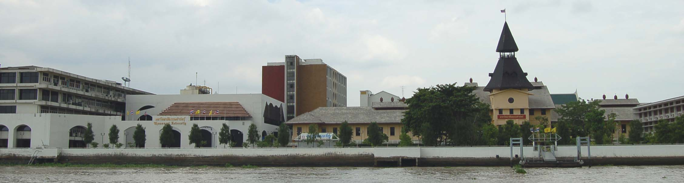 Thammasat University, looking from Siriraj Hospital